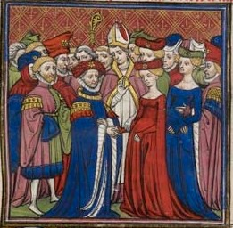 Marriage of Philip II, Duke of Burgundy, and Margaret III of Flanders. (British Library, Royal 20 C VII f. 182)